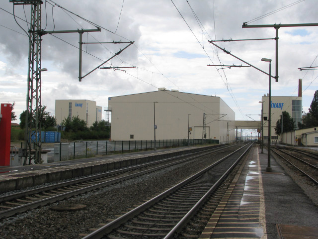 The Photography shows the main industrial plant of 'Knauf Gips KG' in the city of Iphofen, Germany.